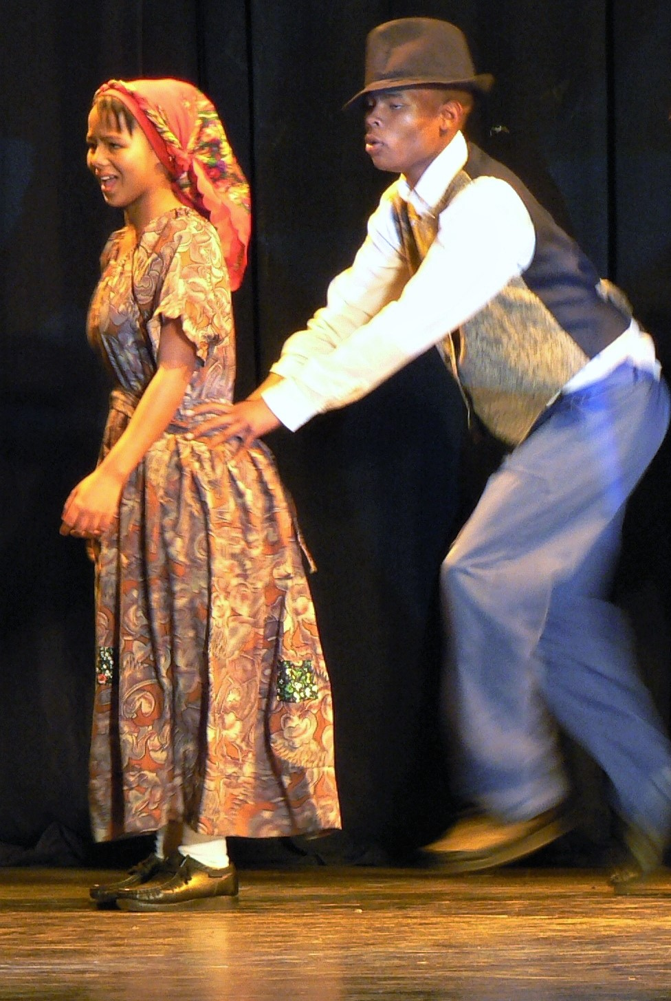 Couple from Namaqualand performing the Stap dance at Zindala Zomibili Festival, Northern Cape Theatre, Kimberley, 13 September 2008 This is an image from South Africa